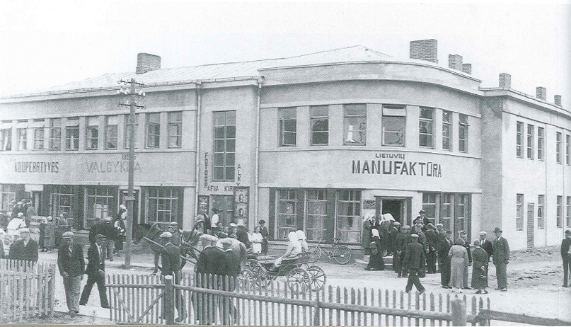 Papilys in 1940s